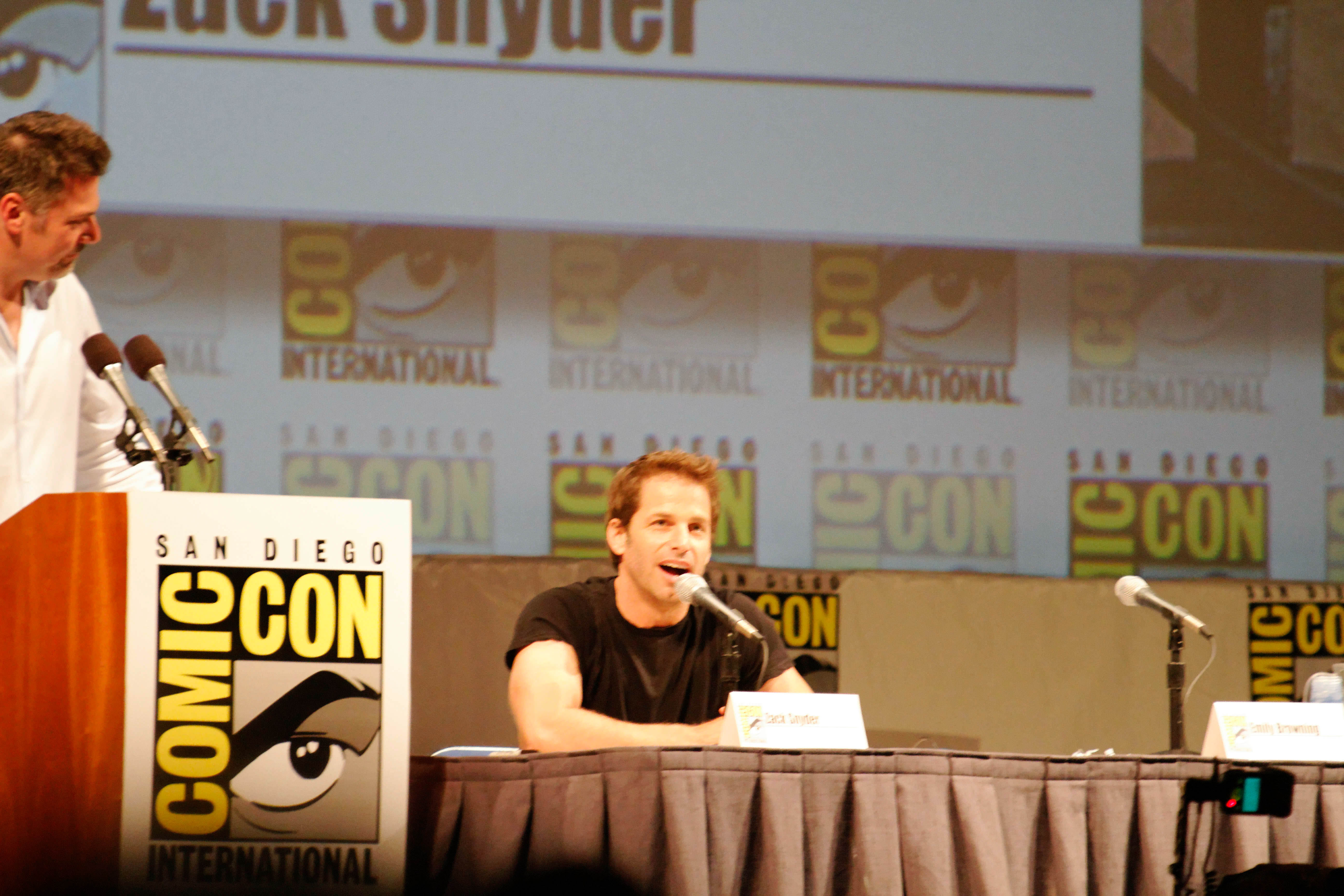 Zack Snyder at the 2010 San Diego Comic-Con International.